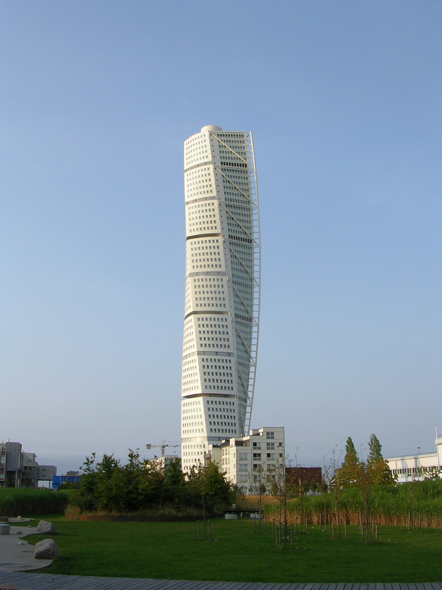 Turning Torso building in Malmö, Sweden. Designed by the Spanish architect Santiago Calatrava it was officially opened on 27 August 2005.